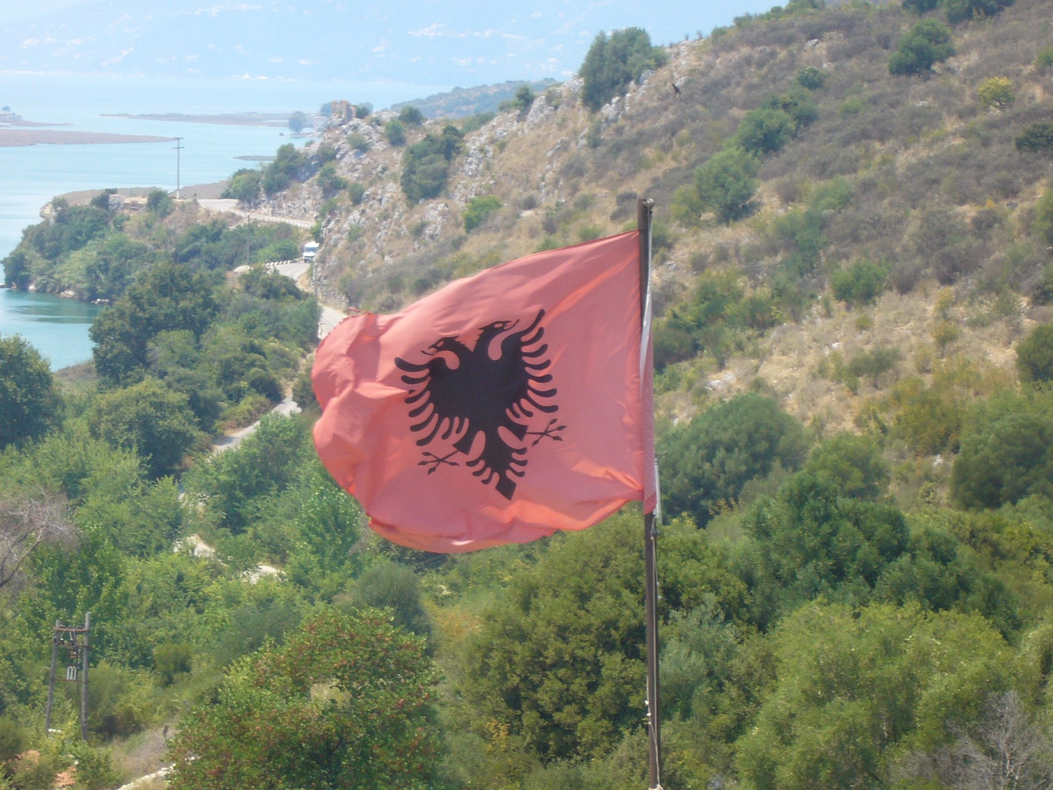 Flag of Albania. in Butrint